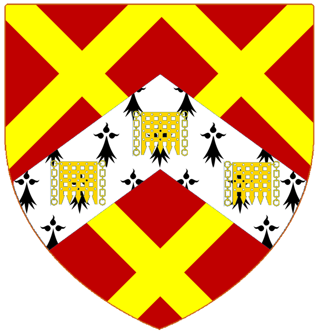 Shield of arms of The Viscount Greenwood